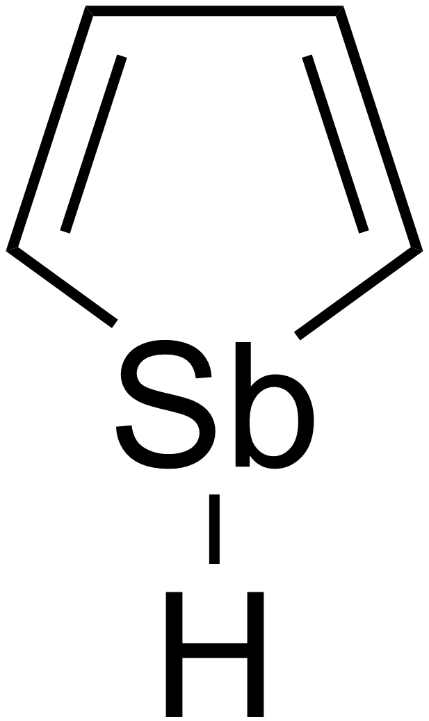 Chemical structure of 1H-stibole